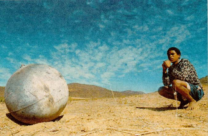 Human-made pressurization sphere stemming from a rocket body that fell in Southern Africa